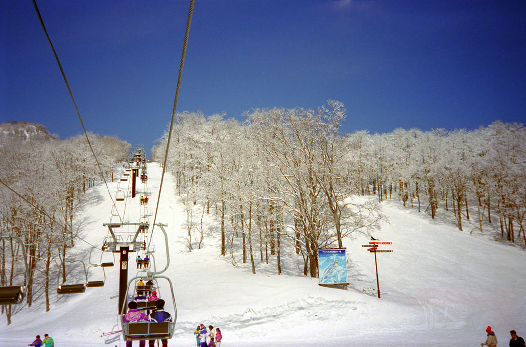 Akakura Kanko Ski Resort, Japan.